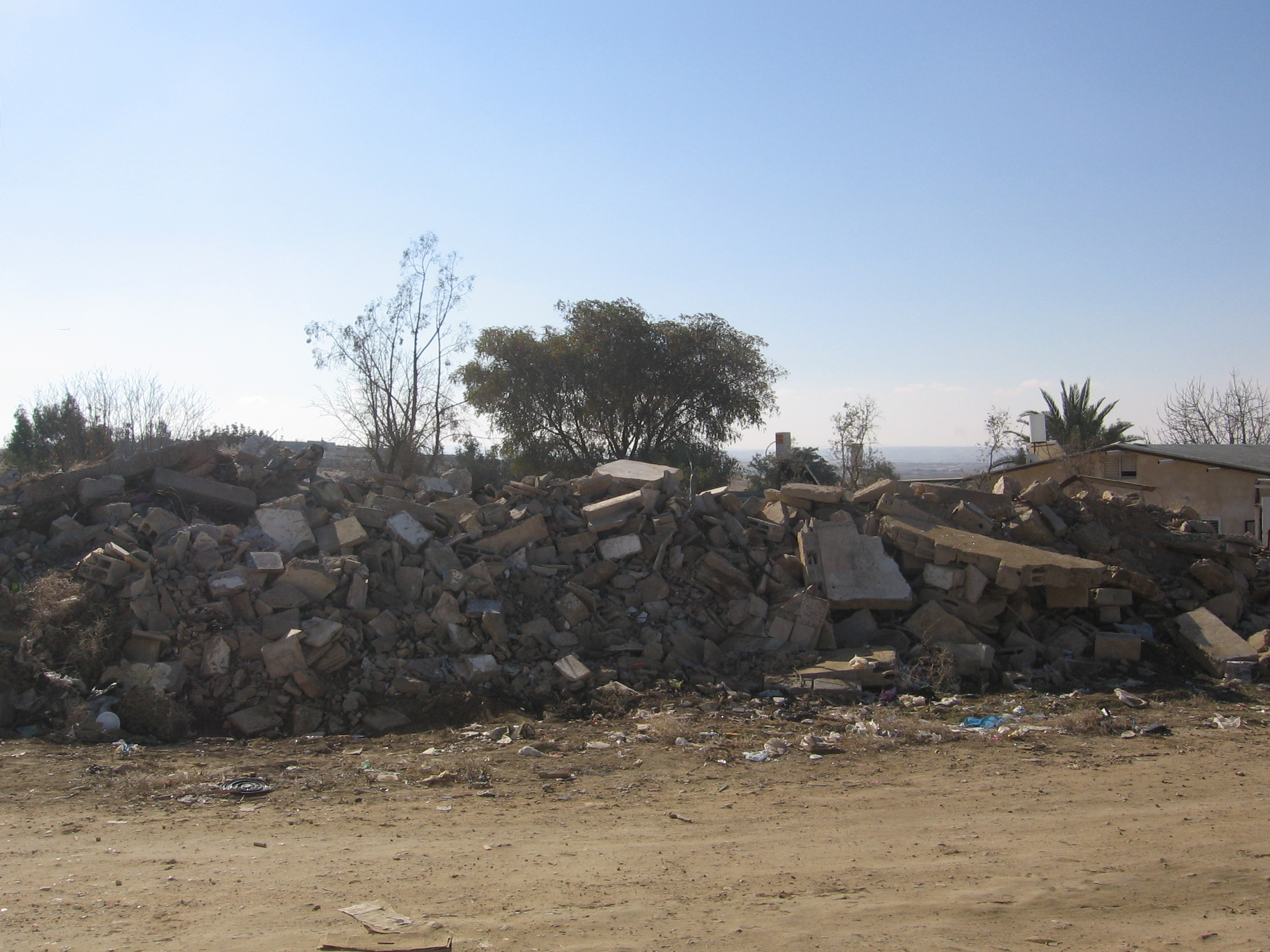 Demolished house in the unrecognized Bedouin village of Aljarin, January 2008